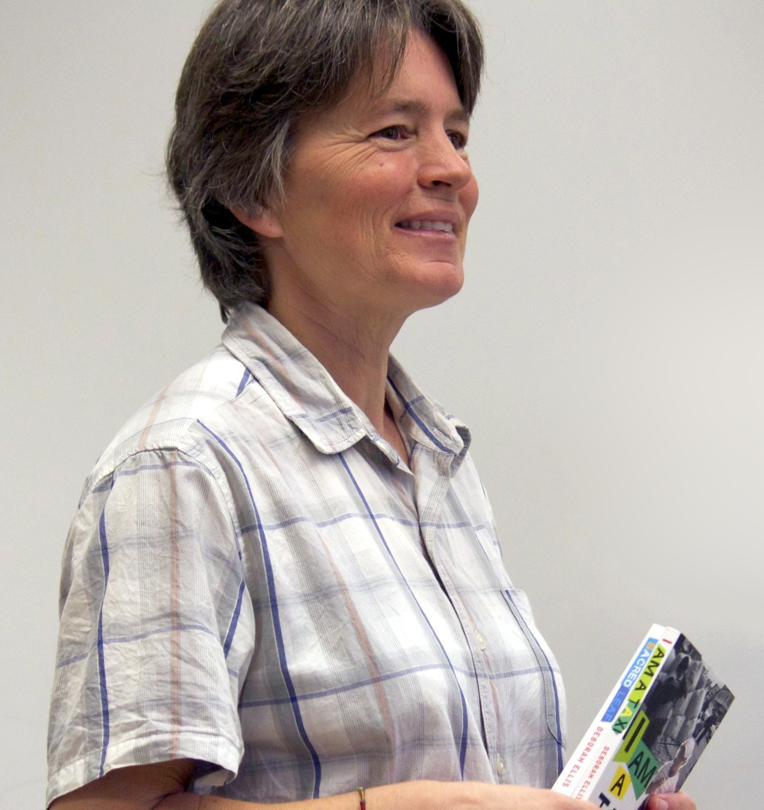 Deborah Ellis, Canadian author of dozens of juvenile and young adult books - both fiction and nonfiction - visiting Renaissance, Florida on 2011. Edison State College, Ft Myers, FL.